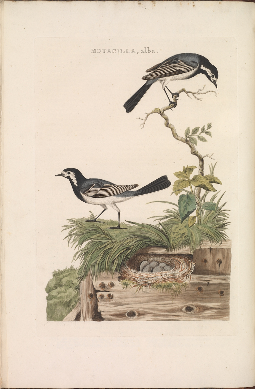 Plate 63 from the Nederlandsche vogelen by Nozeman and Sepp.